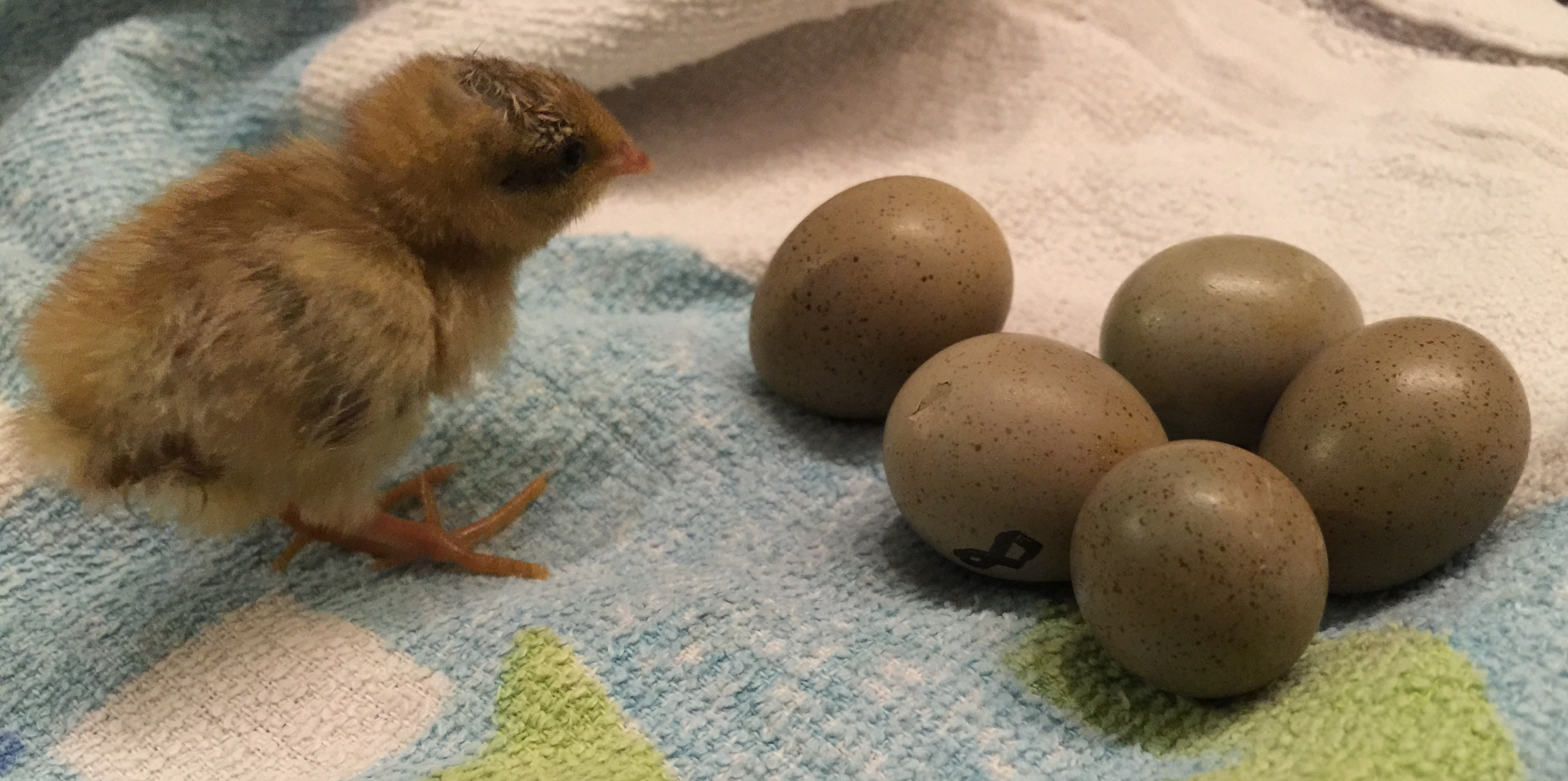 King quail eggs and baby bird(10days)